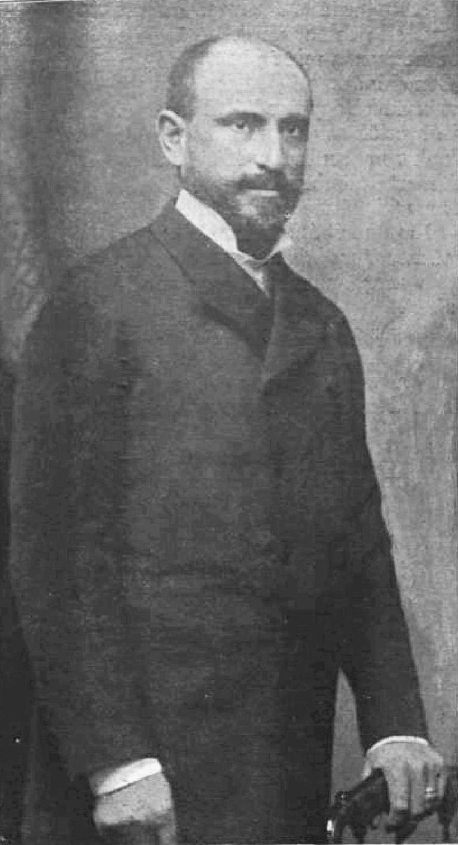 Ernő Dániel, Minister of Trade